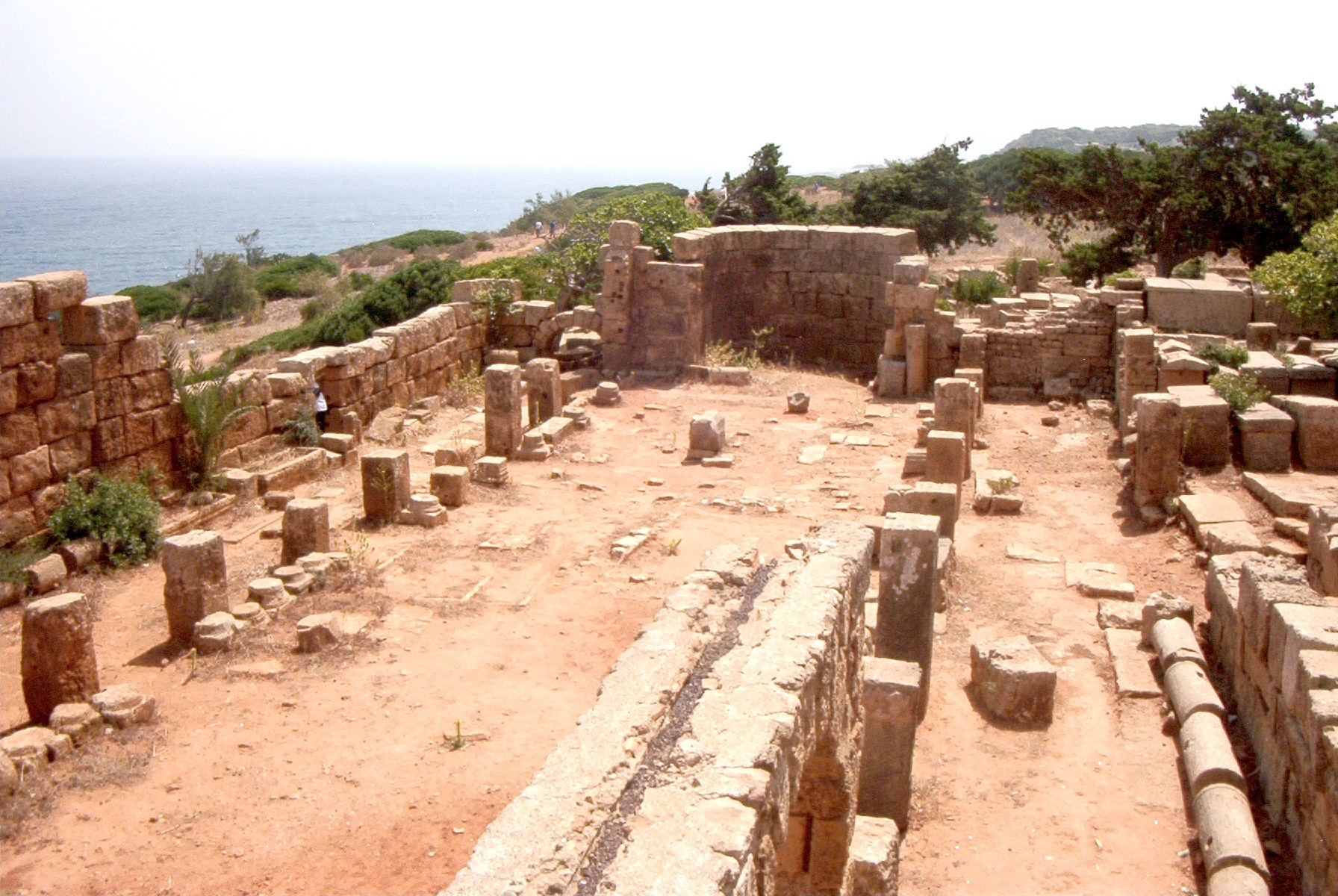 Ruins of the Byzantine era Basilica of St. Crispinus — in Tipaza, northern Algeria.